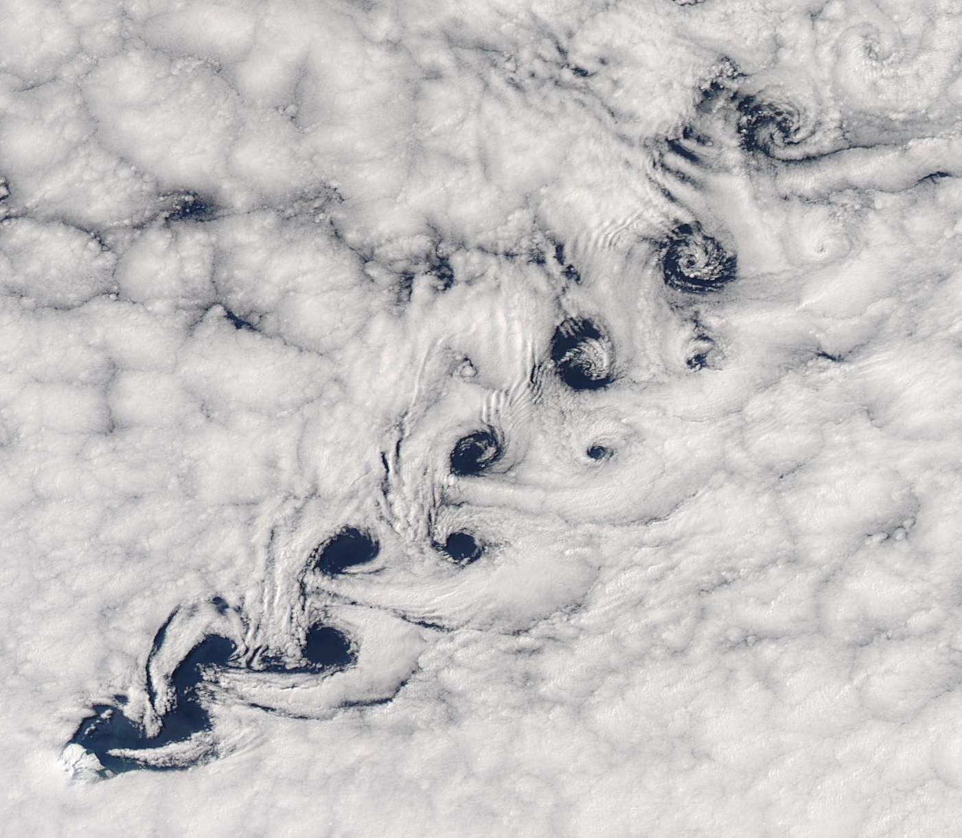 Cloud vortices in the cloud layer off Heard Island, south Indian Ocean. The Moderate Resolution Imaging Spectroradiometer (MODIS) aboard NASA’s Aqua satellite captured this true-color image of sea ice off Heard Island on Nov 2, 2015 at 5:02 AM EST (09:20 UTC).